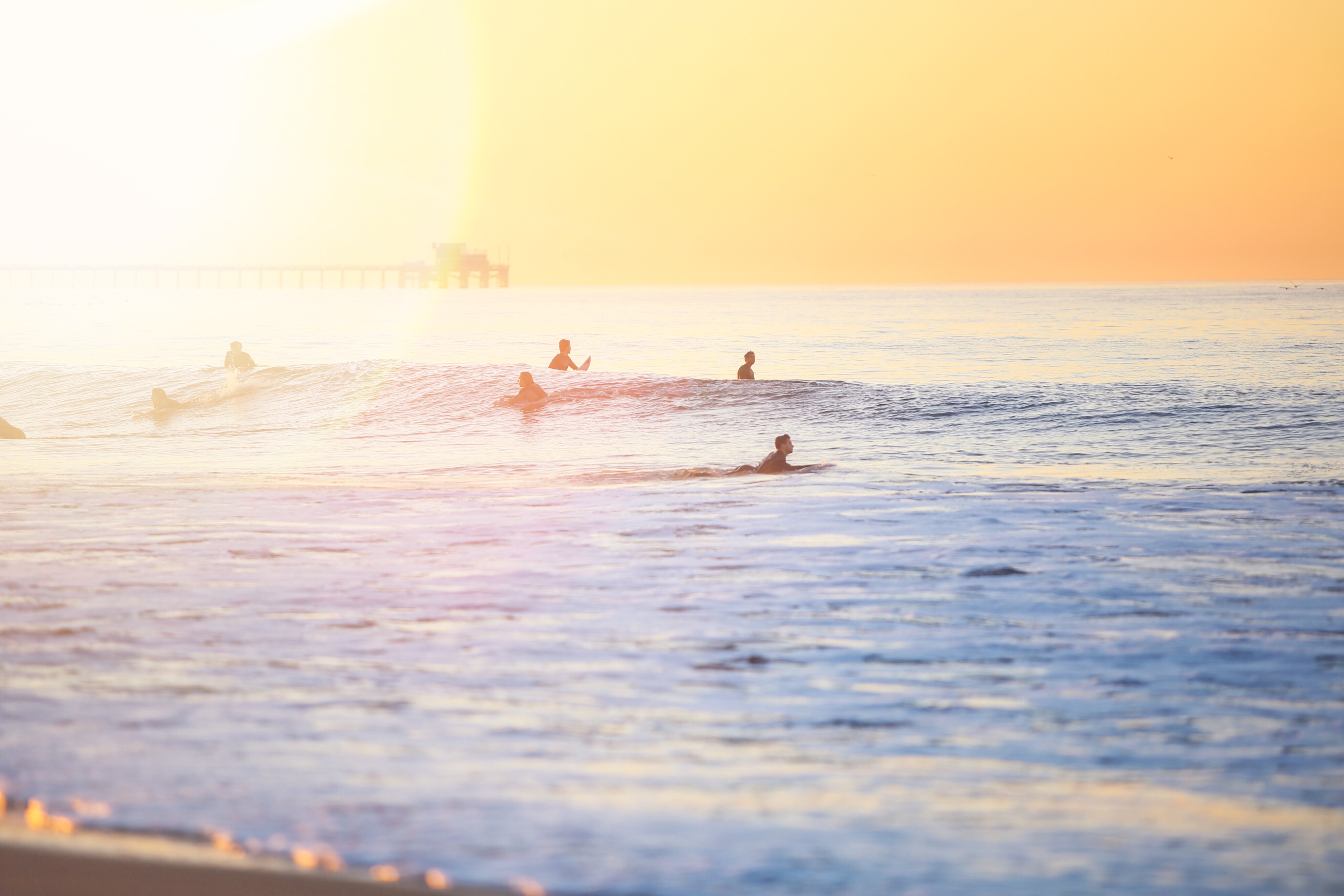 54th Street, Newport Beach, United States